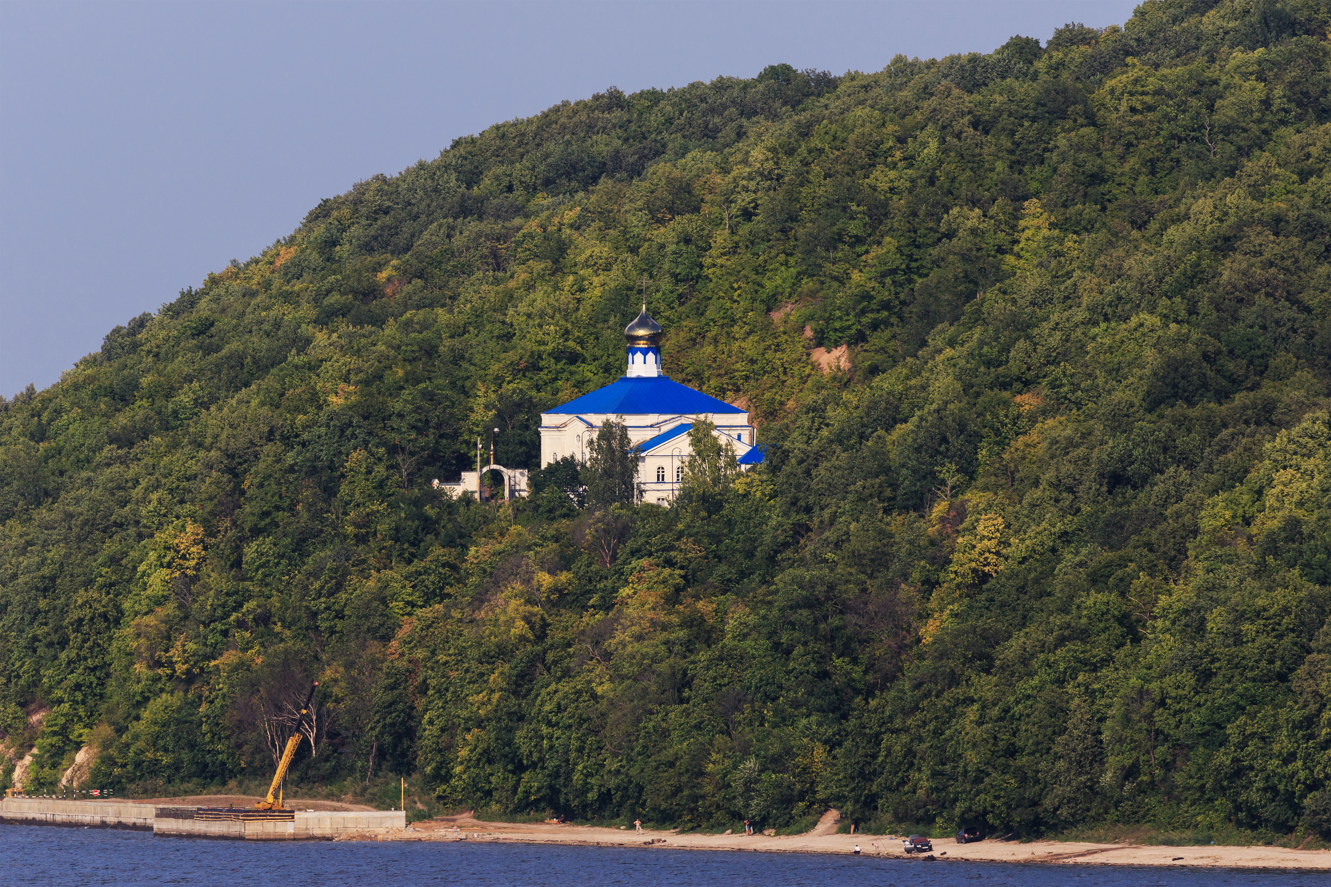 View of Makarievskaya Poustinia from Sviyazhsk, Tatarstan, Russia.